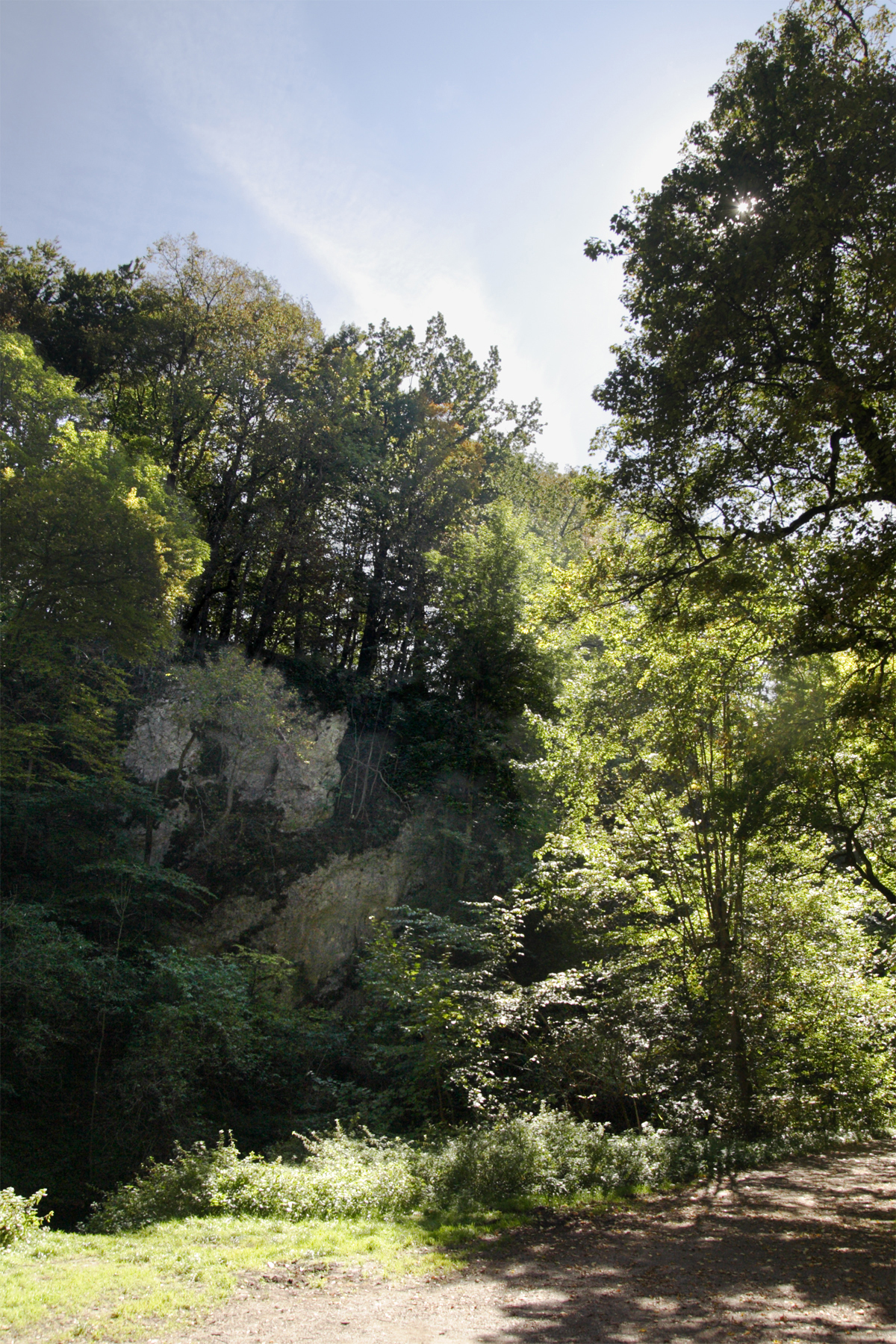 "Bittelschießer Täle", small canyon of river Lauchert, Swabian Alb. After the last glacial period (ca. 140Ma) the river eroded moraines and then cut a mass limestone. The totally lignified canyon, here 30m wide, is a very valuable nature reserve (geotope).